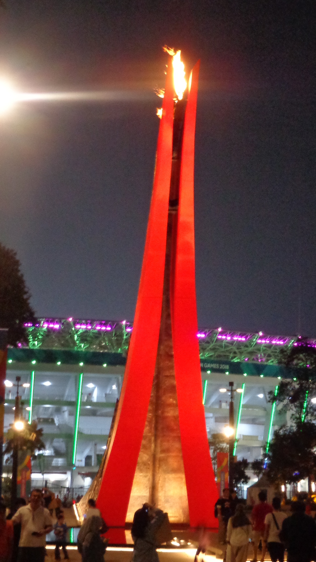 The flame blazed during the 2018 Asian Games on the cauldron at the GBK Sports Complex